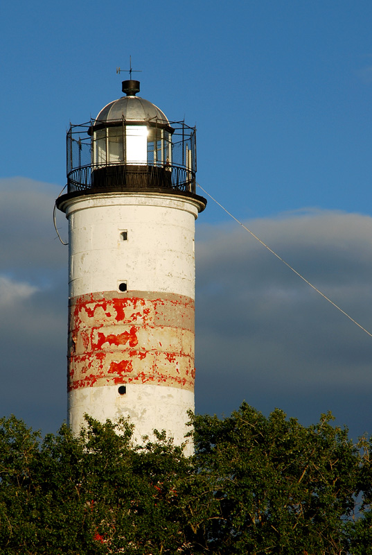 Estonia, Narva-Jõesuu